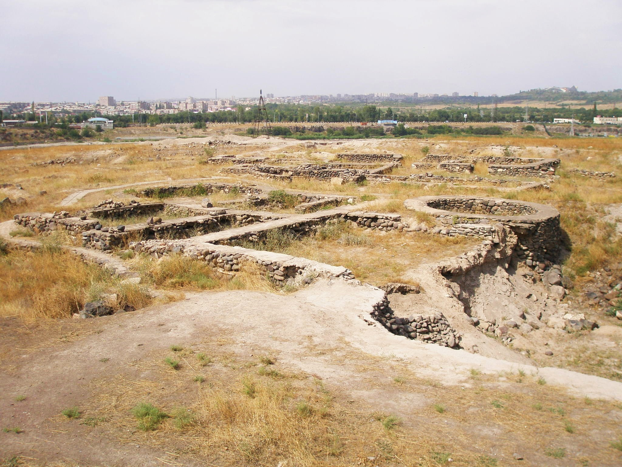 Stone foundations at Shengavit.